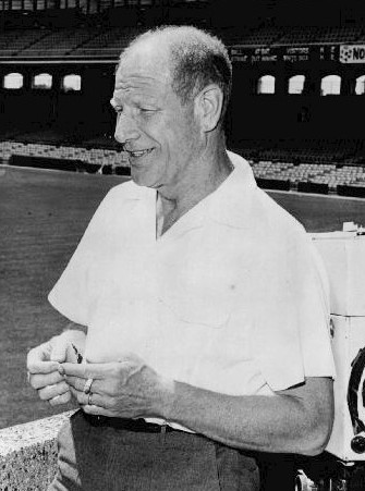 Photo of sportscaster Jim McKay and baseball owner and executive Bill Veeck from the television program Wide World of Sports.